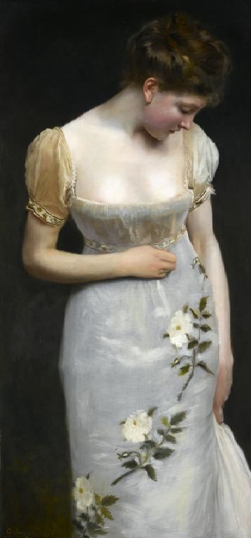 Mademoiselle